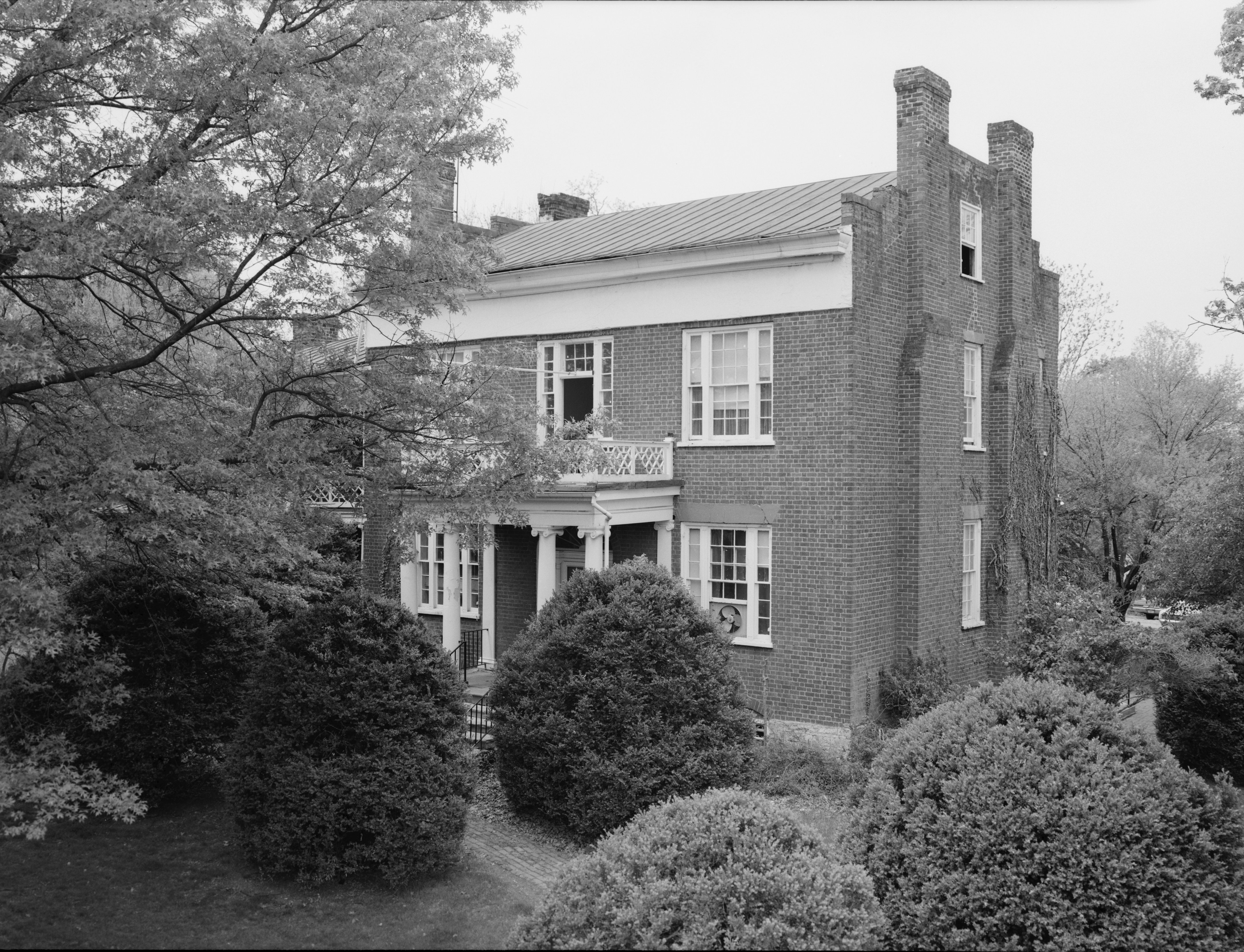 GENERAL VIEW FROM EAST - Reid-White House, 208 West Nelson Street, Lexington, Lexington, VA